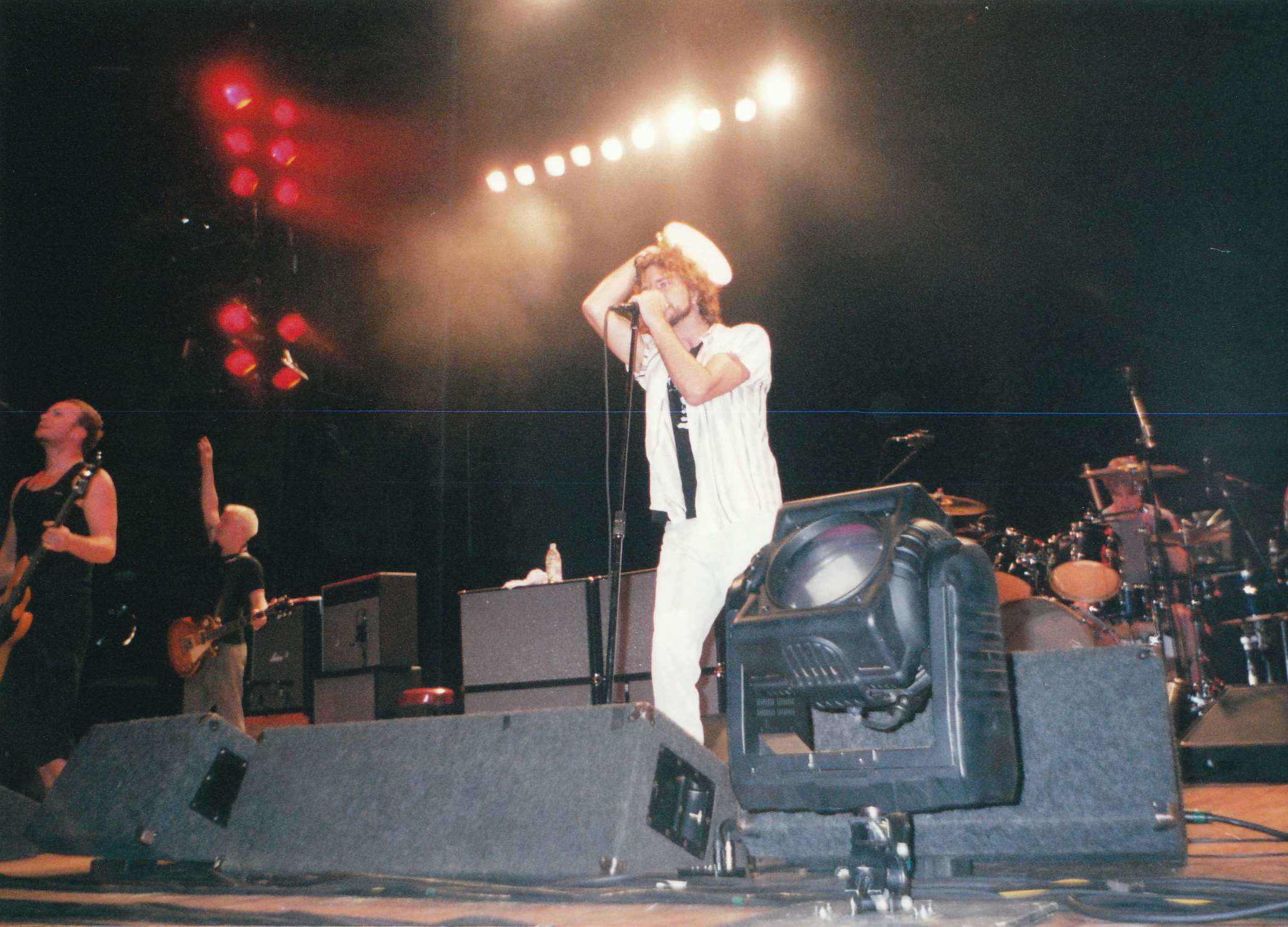 Jeff Ament, Mike McCready, Eddie Vedder, and Matt Cameron